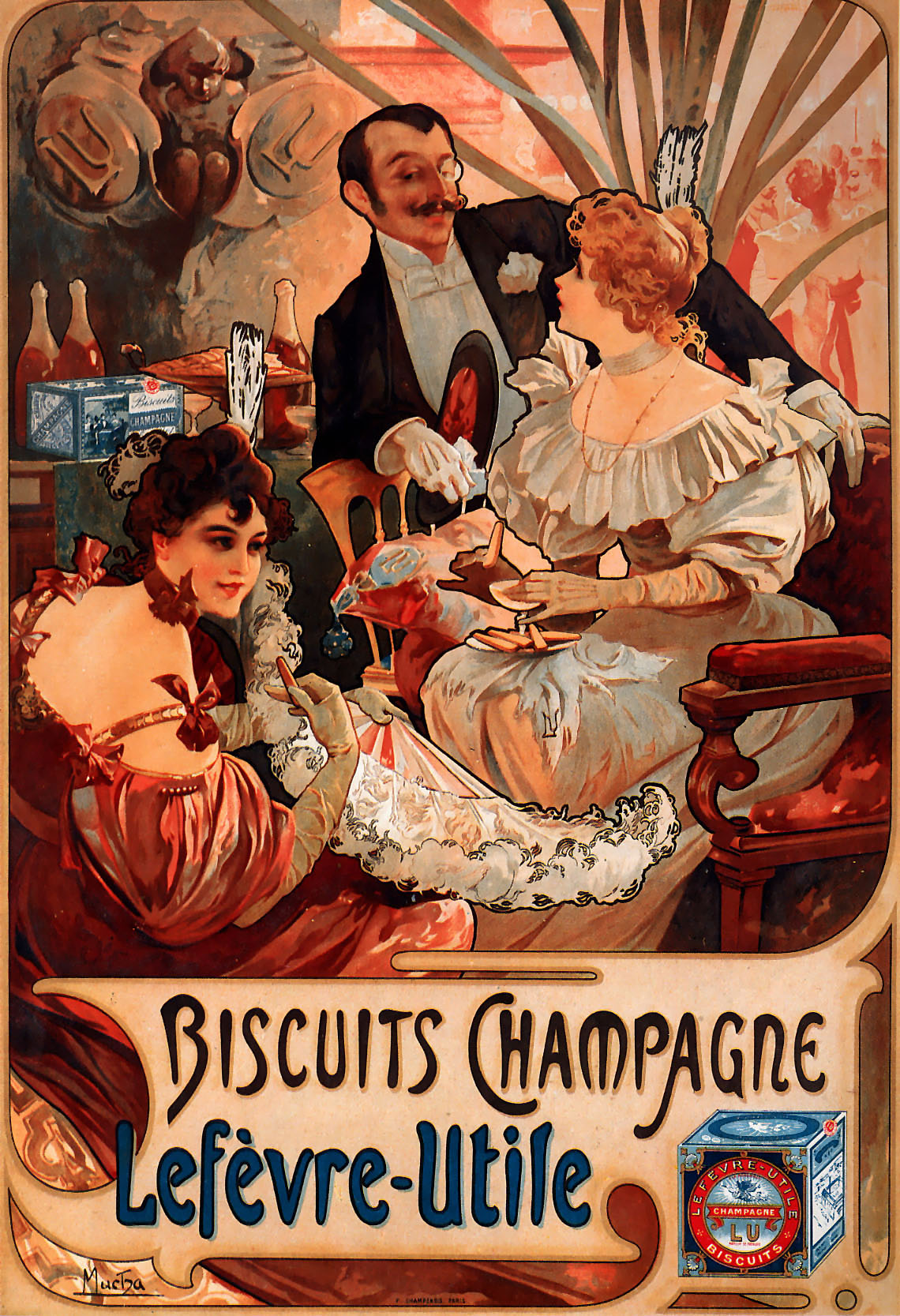 Art Nouveau illustration by Alfons Mucha